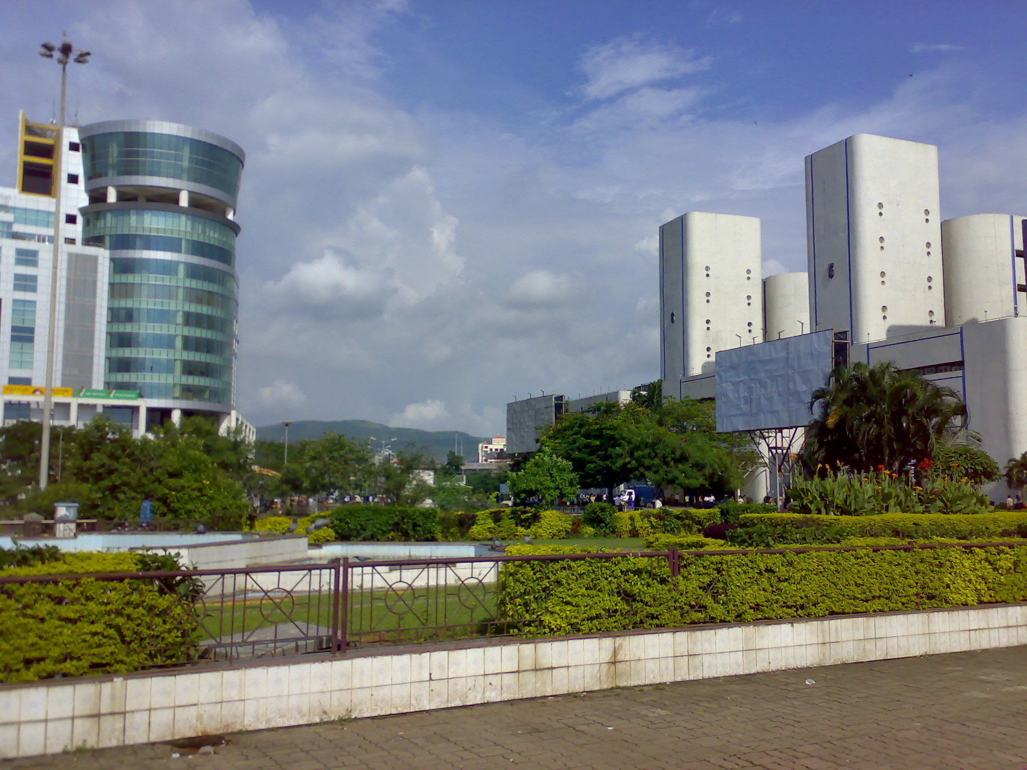 Navi Mumbai in India by zeeble Uploaded to wiki by user:nikkul